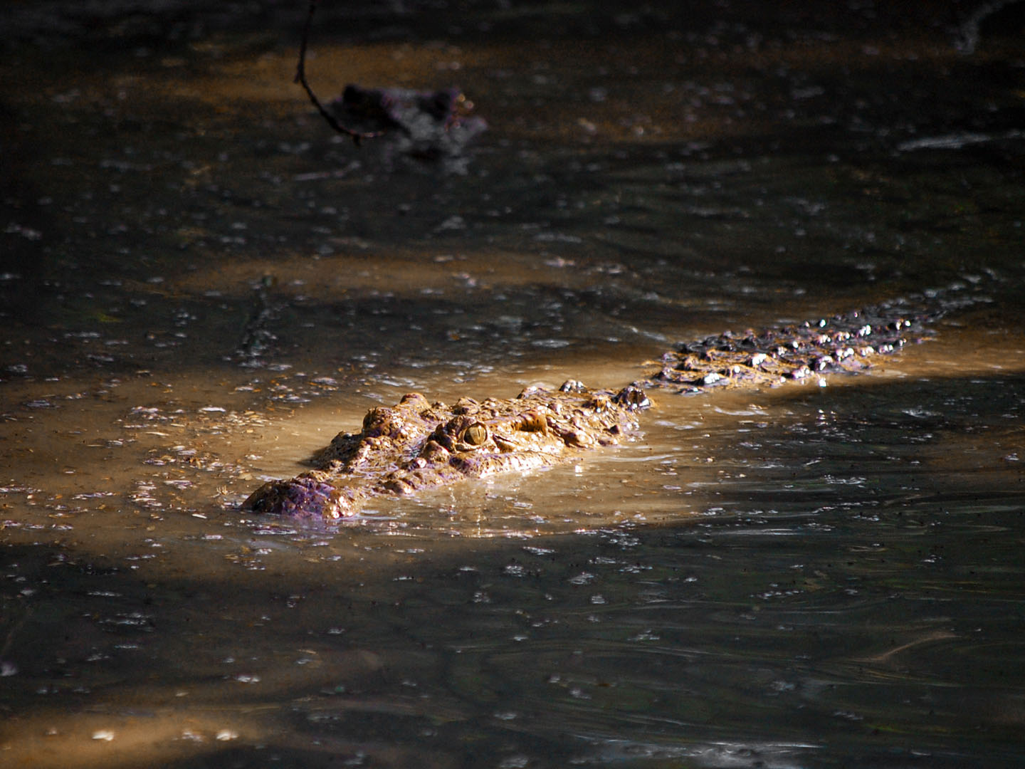 A Philippine crocodile (Crocodylus mindorensis) glides silently through a swamp on the island of Palawan in the Philippines. Photographed in 2012 by Gregg Yan.